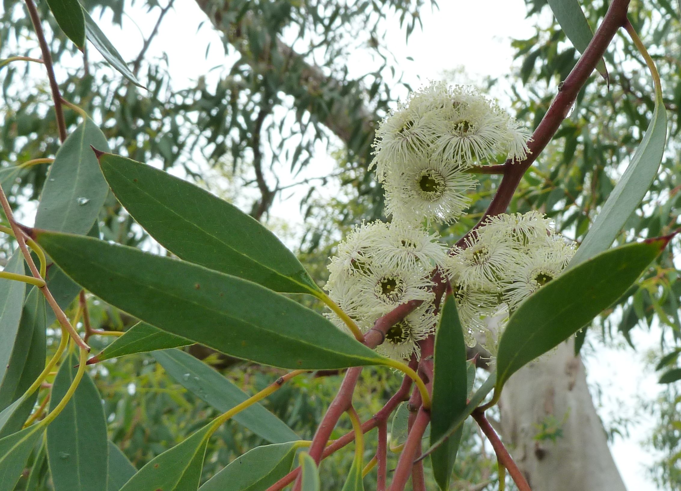 Eucalyptus coccifera at UBC Botanical Garden.